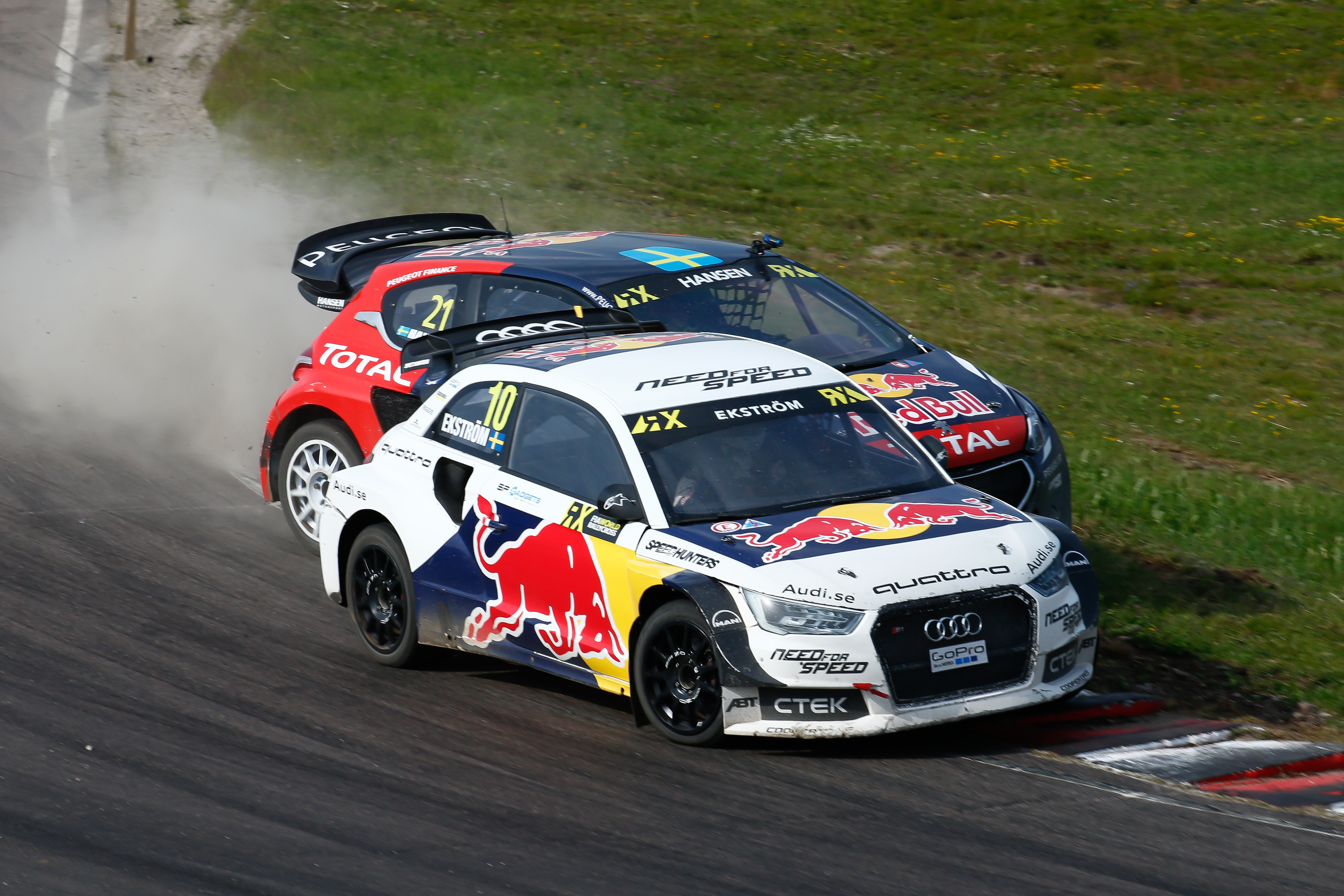 2015 FIA World Rallycross Championship / Round 06, Holjes, Sweden // 3-5 July 2015 // Worldwide Copyright: Colin McMaster/EKS/McKlein